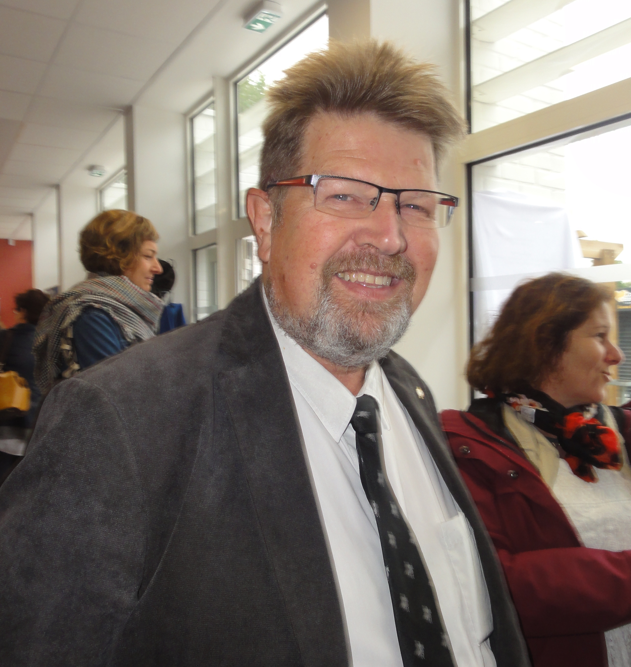 Depicted person: Raymond Zingraff – French politician